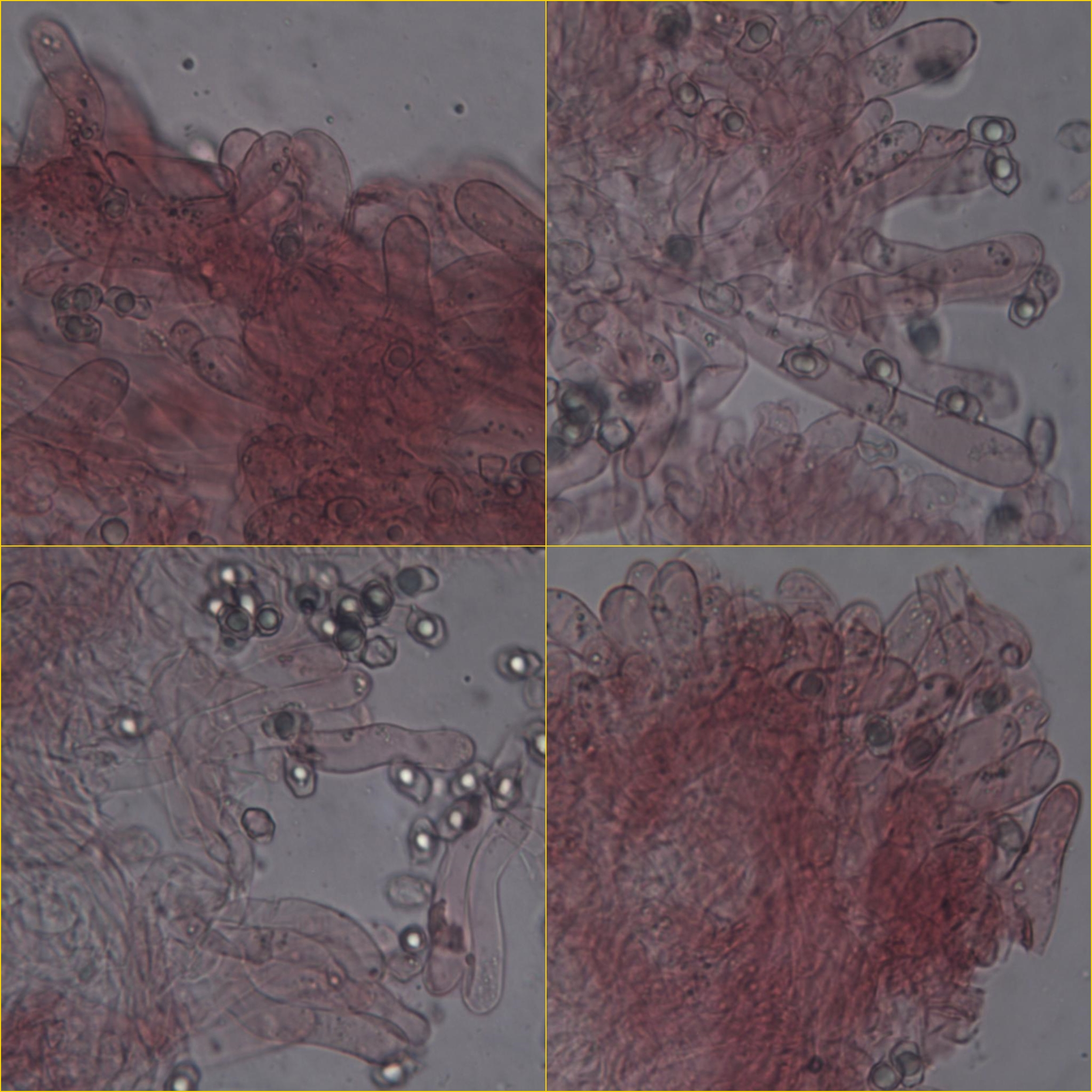 Entoloma mougeotii (Fr.) Hesler Notes: Microscopy: Cheilocystidia-1; Image location: Parque de Monsanto, Lisboa, Portugal This specimen was growing in the same habitat that those in observation 198094, some twenty meters away, and I believe it is of the same species. However, the microscopy revealed the existence of very big pleurocystidia, which is not common in Entoloma. Recognized by sight Used references: Flora Agaricina Neerlandica, Vol. 1 Based on microscopic features For more information about this, see the observation page at Mushroom Observer.